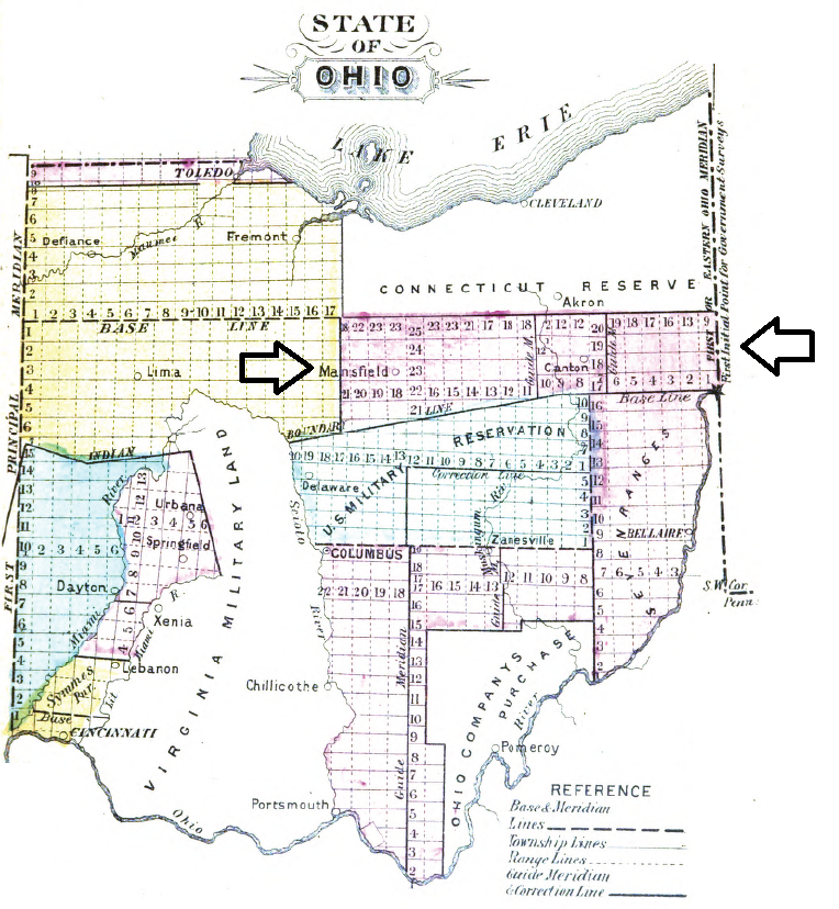 map of lands in northeast Ohio called Congress Land North of Old Seven Ranges surveyed early in 19th century